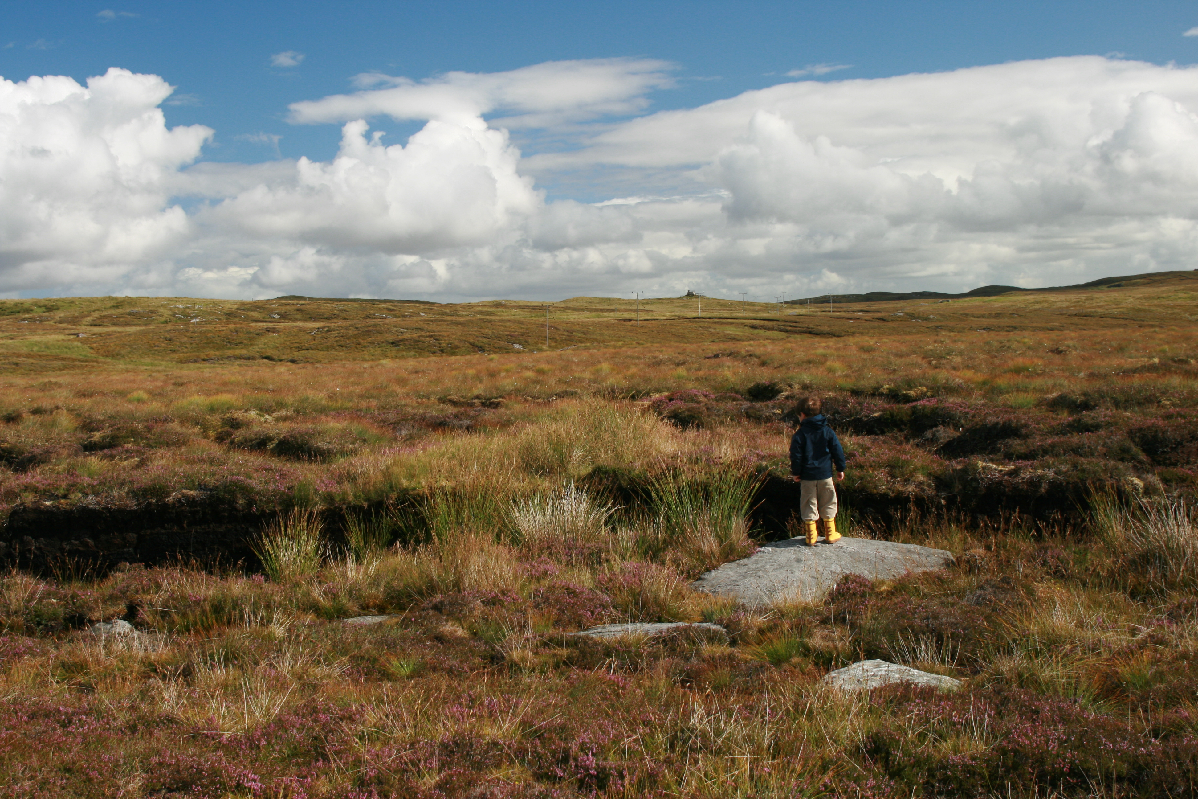 Achmore Stone Circle, a boy, one meter tall, over one of the stone, now laying.